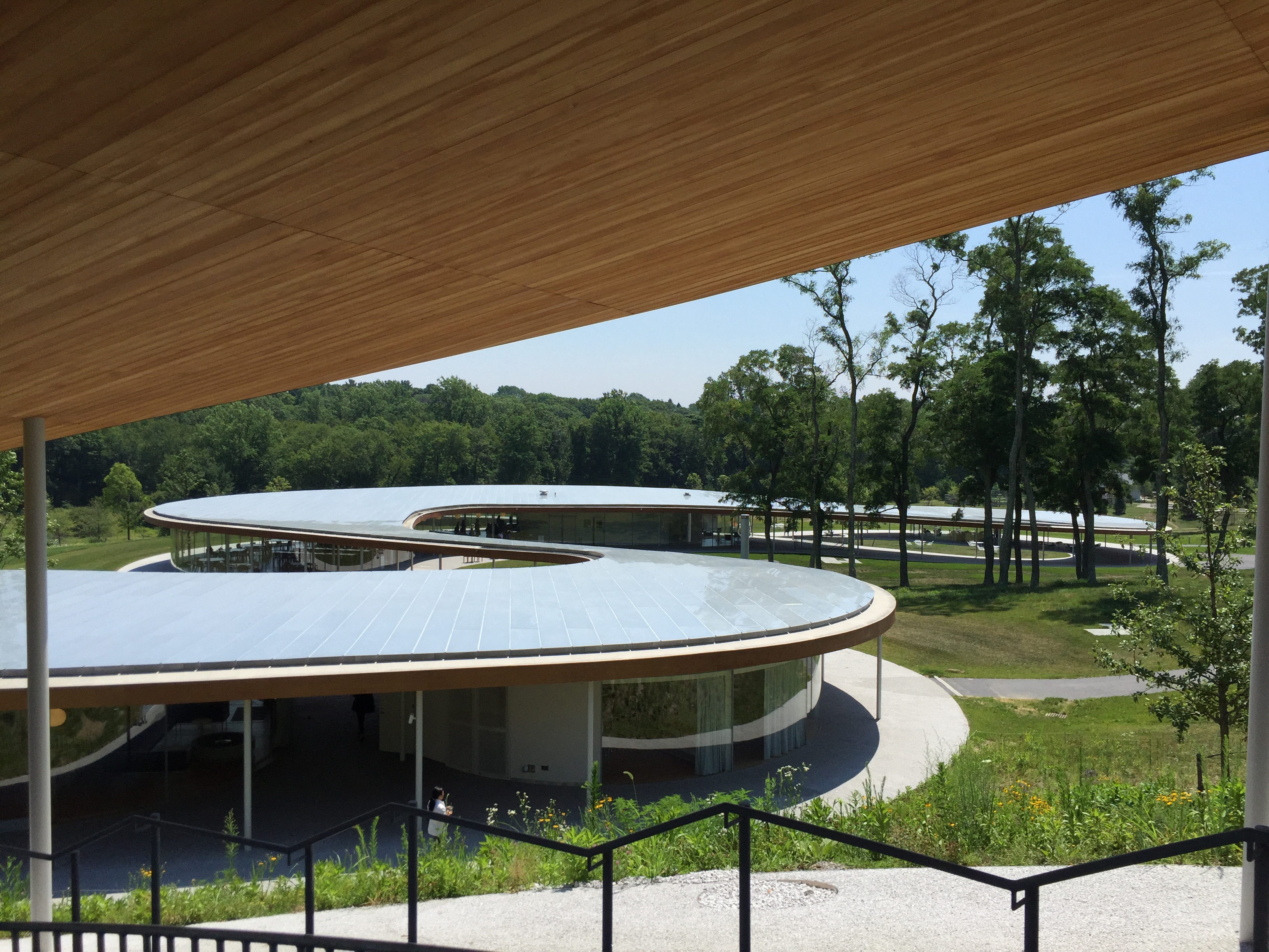 Grace Farms is a center for faith, nature, art and social justice located in New Canaan CT. It includes s non-denominational church, nature park and library.